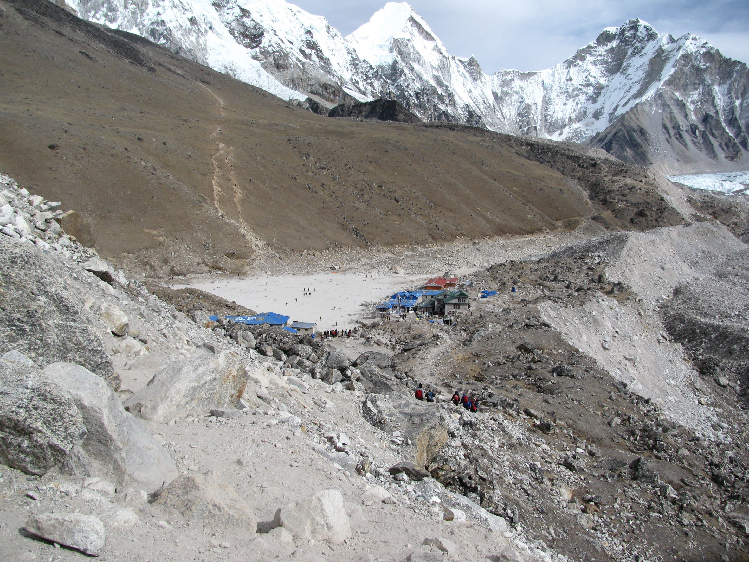 Approaching Gorak Shep lodges and tenting area in the Solu Khumbu region of Nepal. One of the last lodging locations before reaching Everest Base Camp.